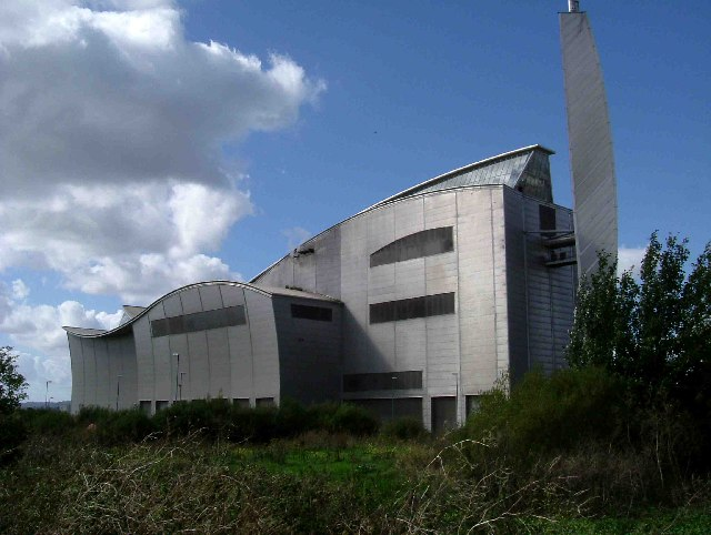 Water Works. A relatively new addition to the Thames Water sewage works at Halfway Reach.